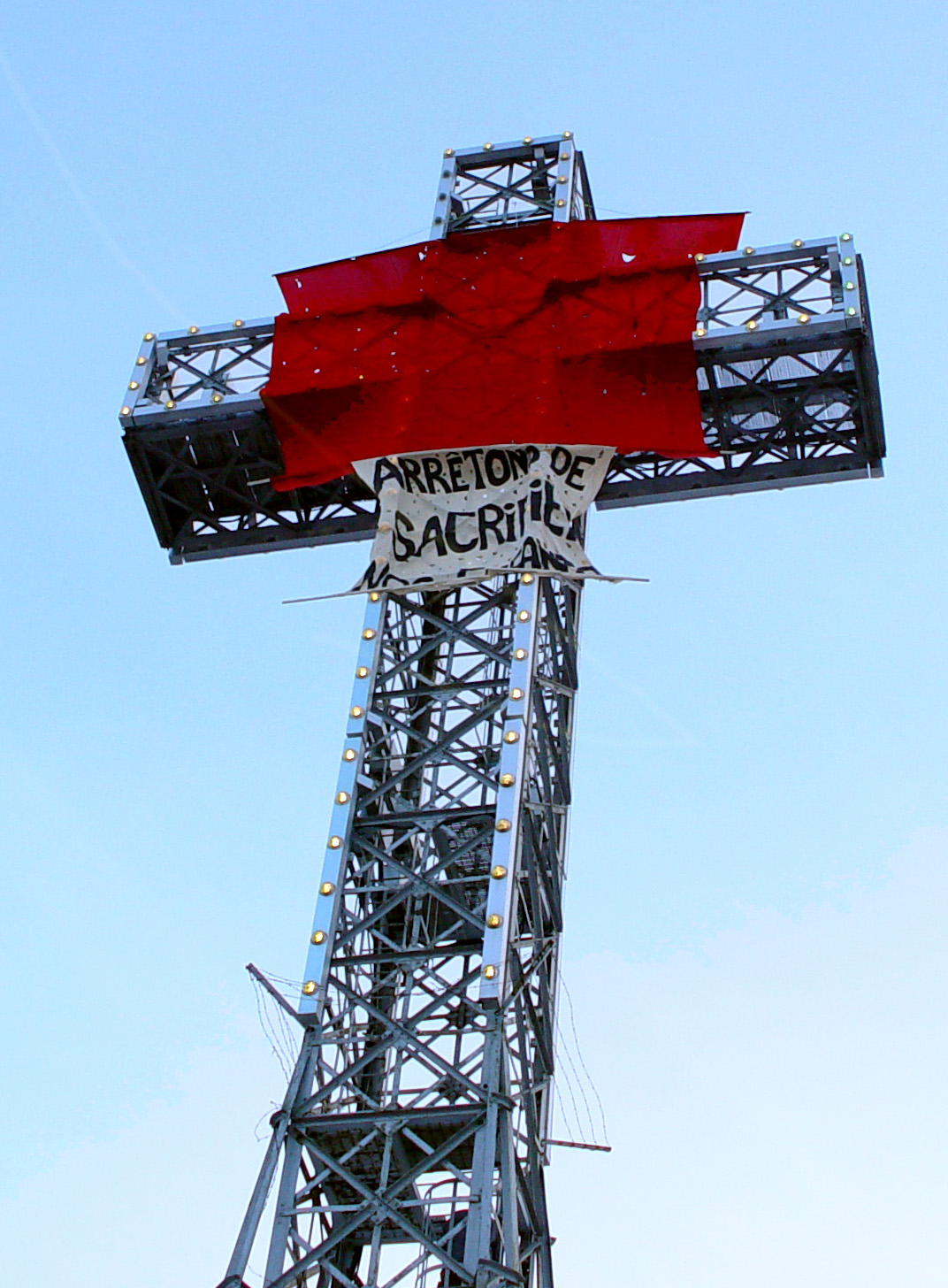 On March 30, a group of students hoisted the students' red square symbol on Mount Royal cross. It took 24 hours before authorities removed it. On its lower panel, it was written: "Arrêtons de sacrifier nos enfants", which means: "Let's stop sacrificing our children."